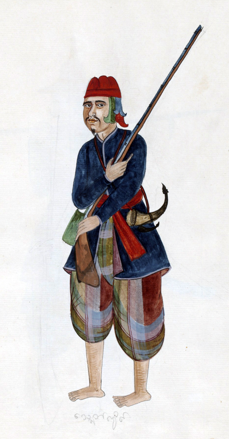 Watercolour drawing of a standing figure annotated in top right corner 'Common soldier'. The soldier wears a green outer jacket and purple and green checked under garment looped up around his legs. He wears a red helmet and carries a gun over his left shoulder and a powder horn at his waist. This album gives detailed visual depictions of a wide range of officials and their wives from the last Burmese court at Mandalay (1857-1885) together with their regalia of rank. The period covered encompasses the reigns of King Mindon Min (1852-1878) and Thibaw (1878-1885). Included are grades of court officials, army officers, princes, Brahmin priests and members of ethnic minorities. It is likely that the album was created on the orders of a European visitor using local court artists.